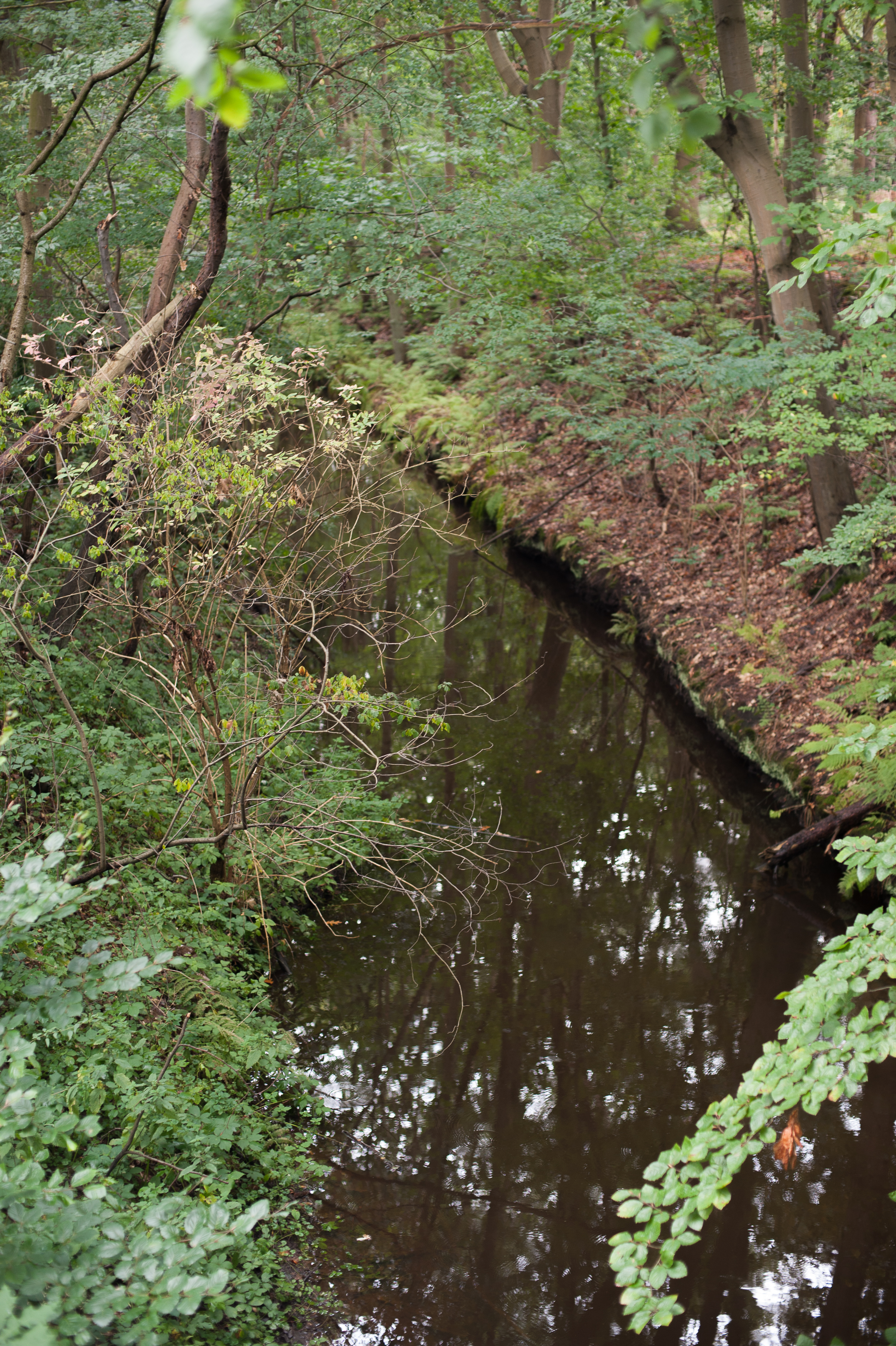 De Zoom, old Peat canal near Bergen op Zoom, Netherlands